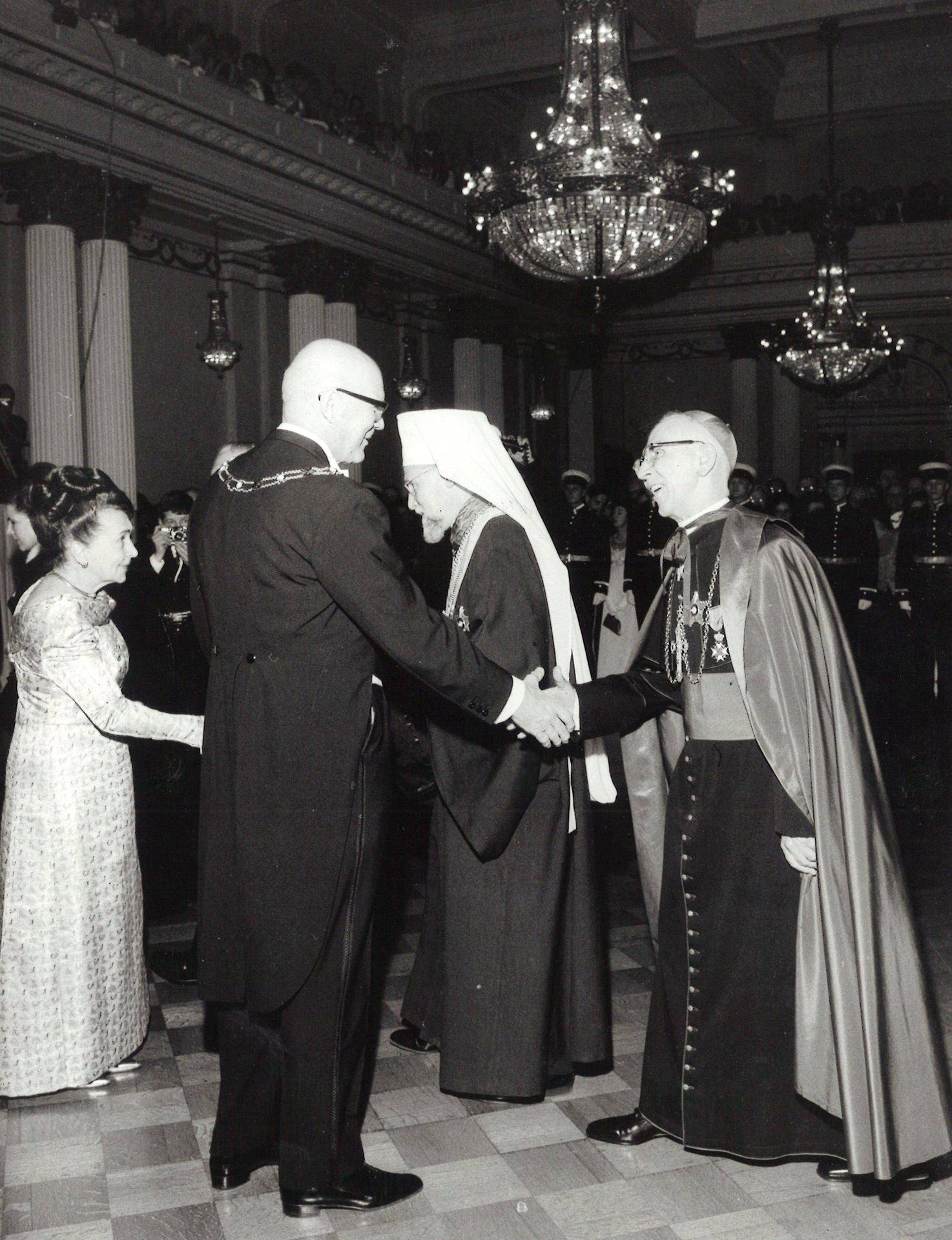 Photograph of Urho Kekkonen with the Finnish bishops Paavali (Orthodox church) and G. P. B. Cobben (Roman Catholic church) at the Independence Day reception at the Presidential palace of Helsinki.